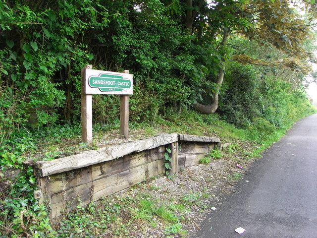 Sandsfoot Castle railway station Original description: Sandsfoot Castle Halt on The Rodwell Trail All that remains of the platform at this halt on the disused rail line between Weymouth and Portland. This section is now a footpath and cycleway.